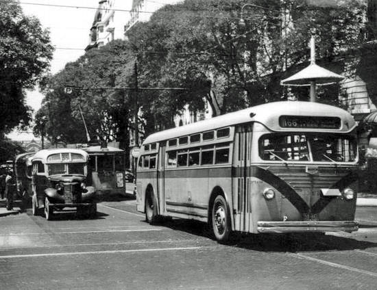 Mack C – 41 Bus of Transportes de Buenos Aires, line 166 (then 66, now defunct) and Colectivo Chevrolet line 35 (today 135), behind a defunct tram. Corner Jose Maria Moreno and Rivadavia.